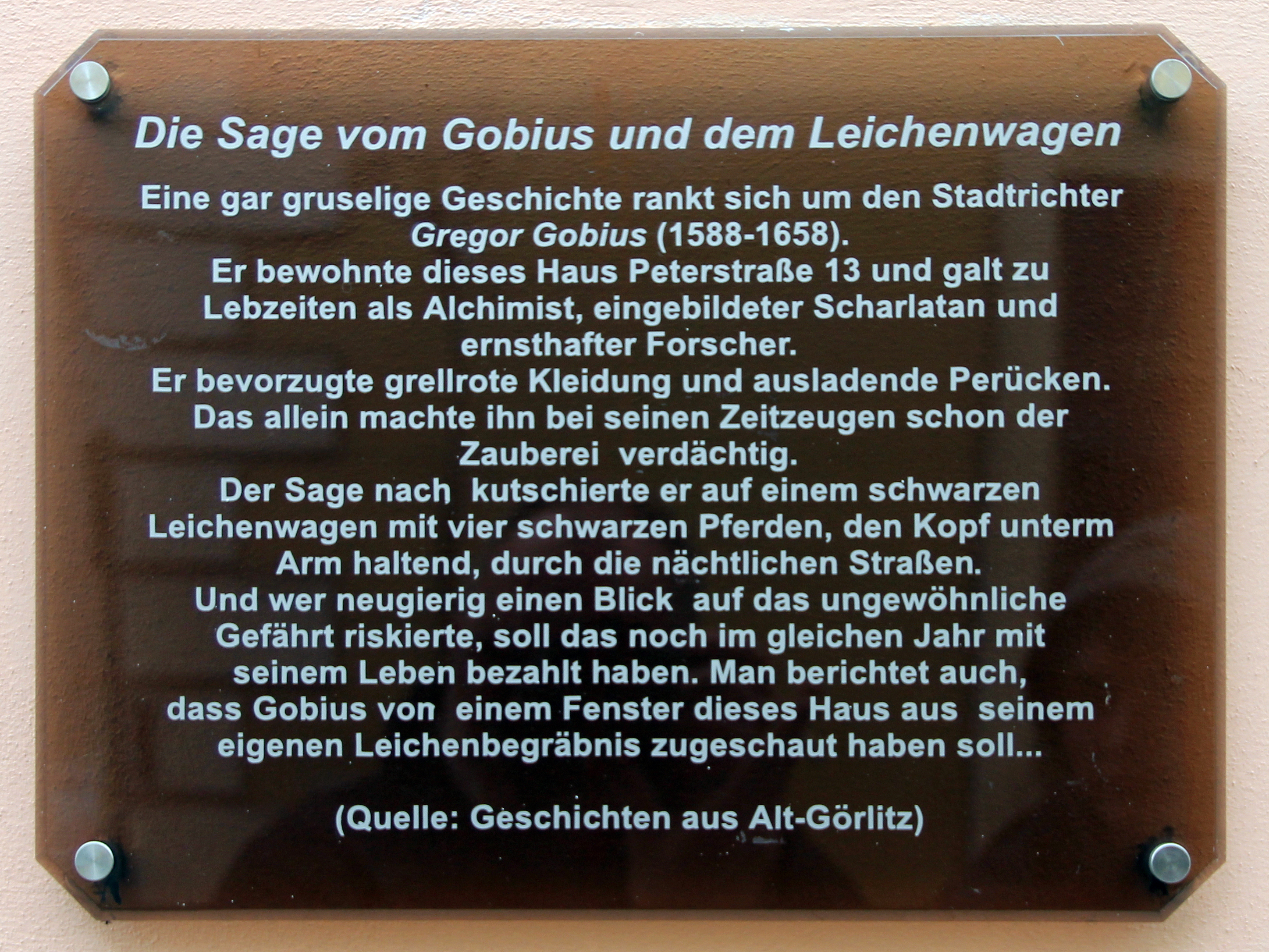 Memorial plaque, Gregor Gobius, Peterstraße 13, Görlitz, Germany